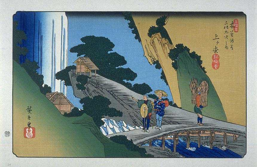 Agematsu on the Kisokaido, ukiyo-e prints by Hiroshige